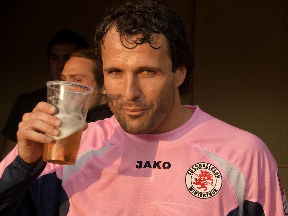 Erich Hürzeler after his last game with FC Winterthur in the Bierkurve